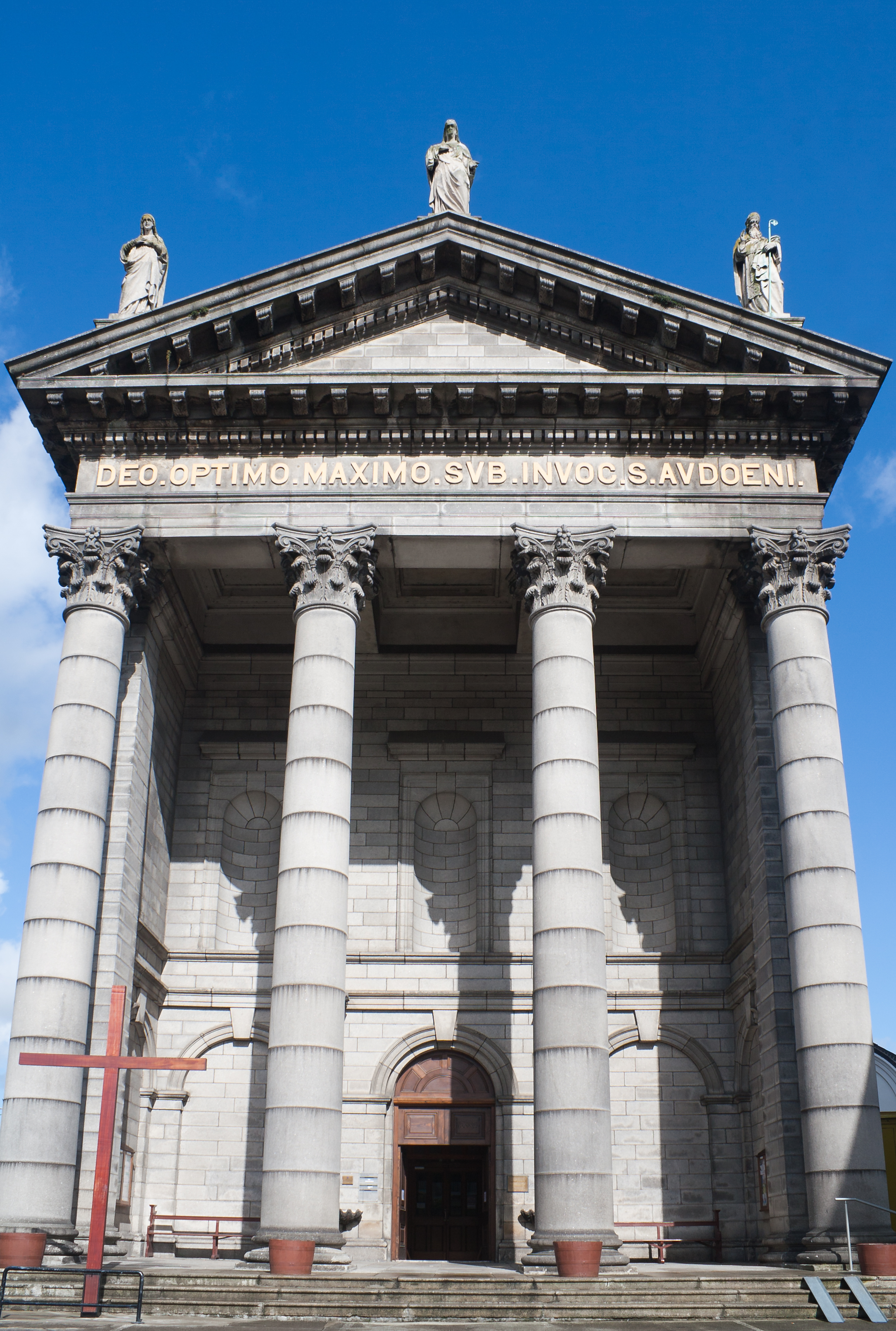 Portico at the south side of the church.